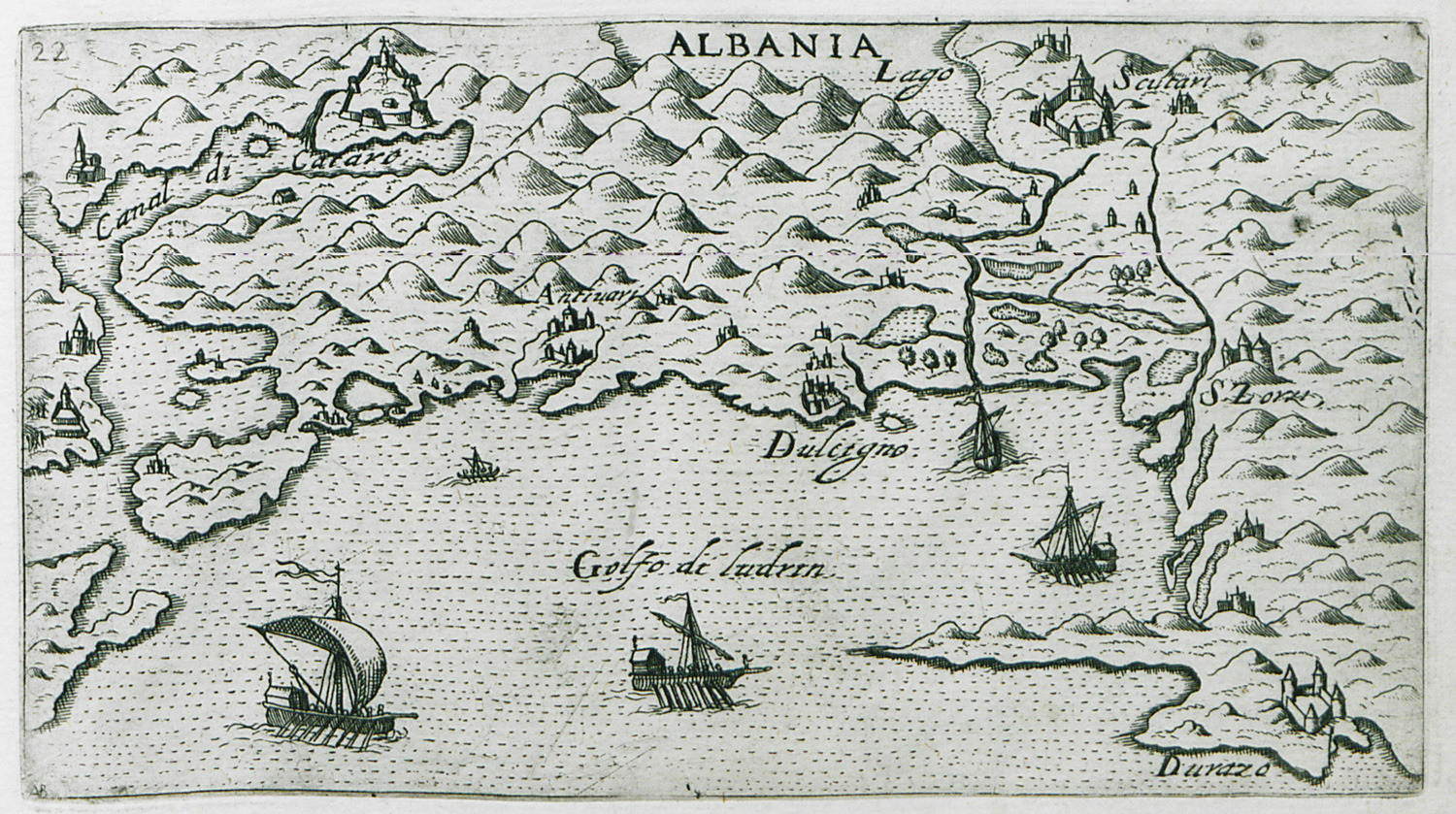 Giuseppe Rosaccio. Viaggio da Venetia, a Costantinopoli : per mare, e per terra & insieme quello di Terra Santa, Venice, Giacomo Franco, 1598